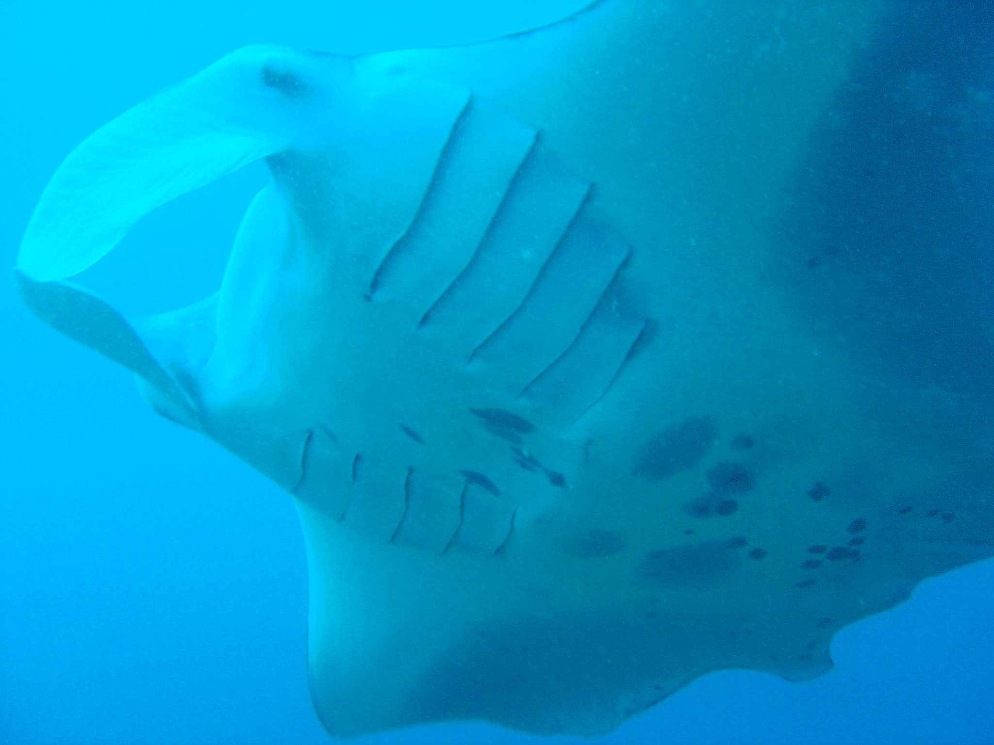 Manta close overhead, Guinjata Bay.